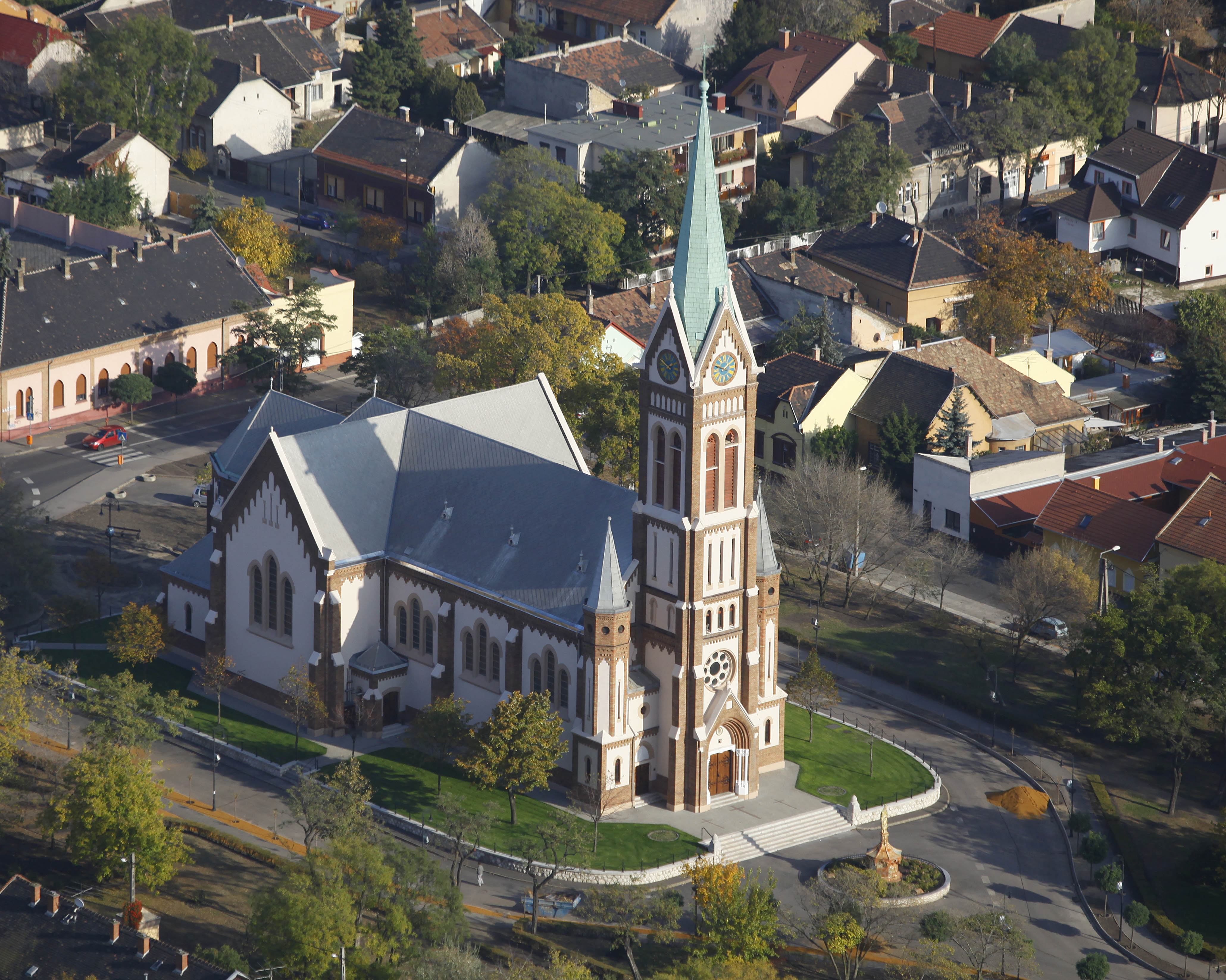 XX. District Budapest, Hungary, aerial photography, temple